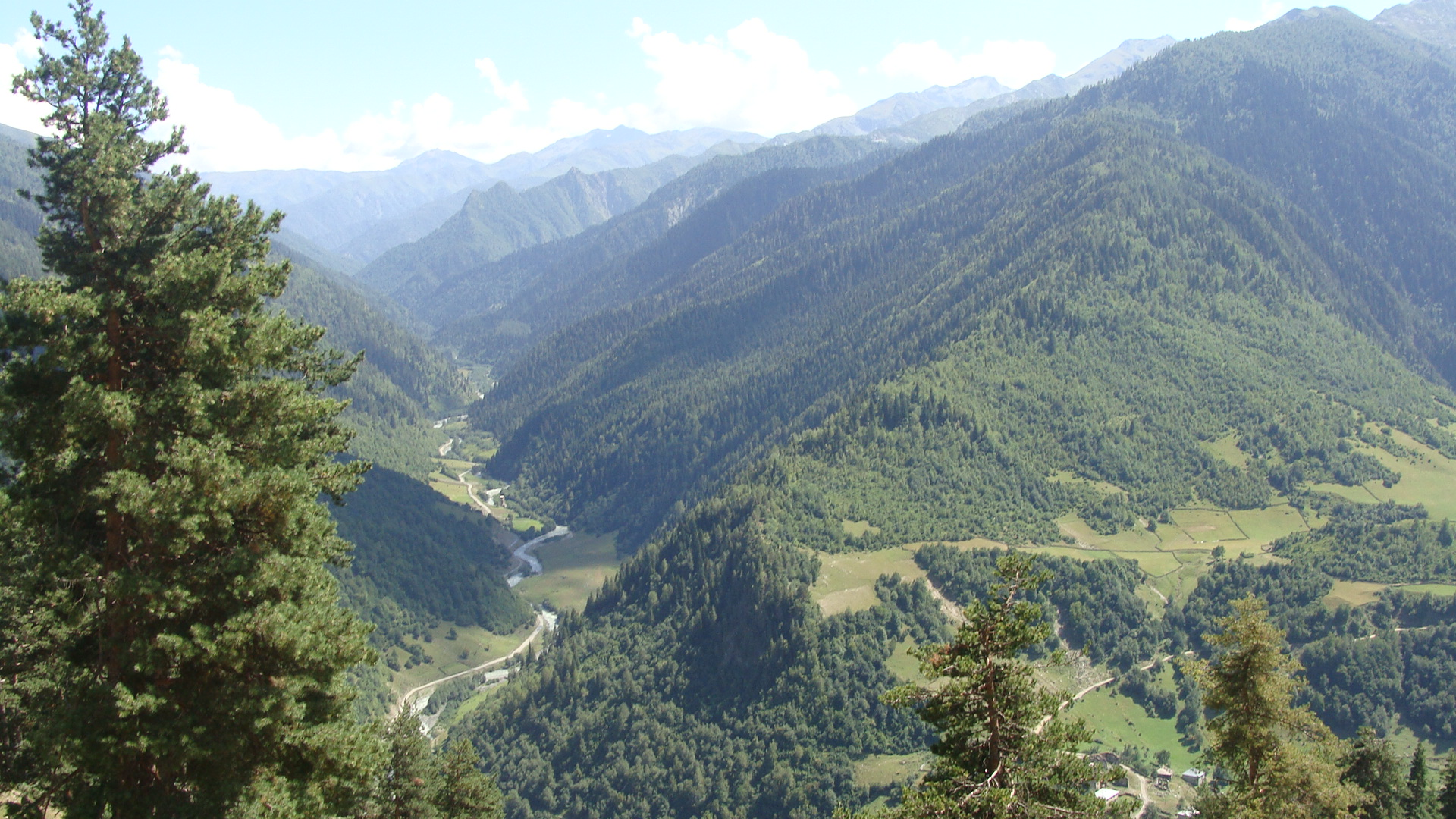 River Enguri